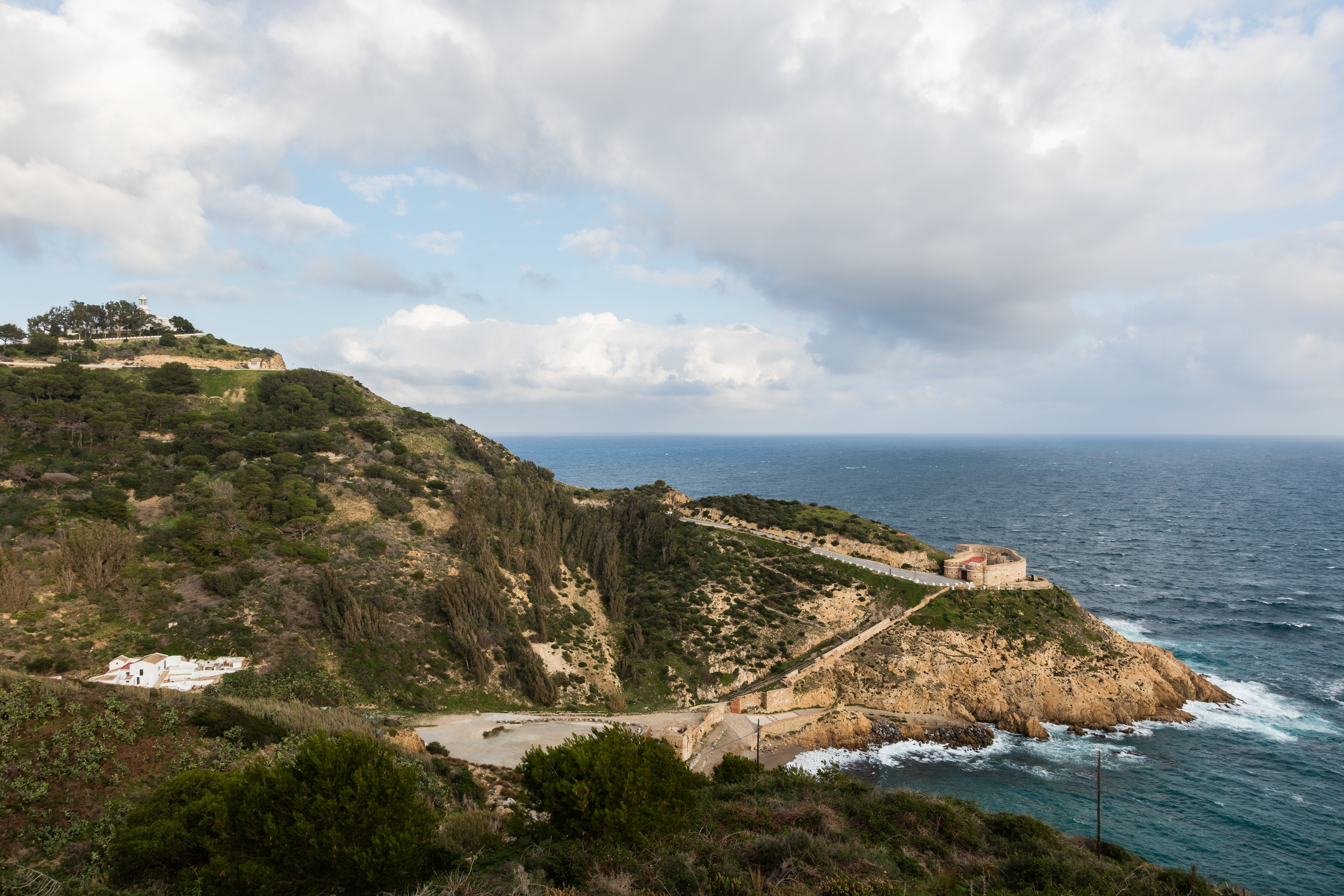 Fort of El Desnarigado and Lighthouse of Punta Almina, Ceuta, Spain